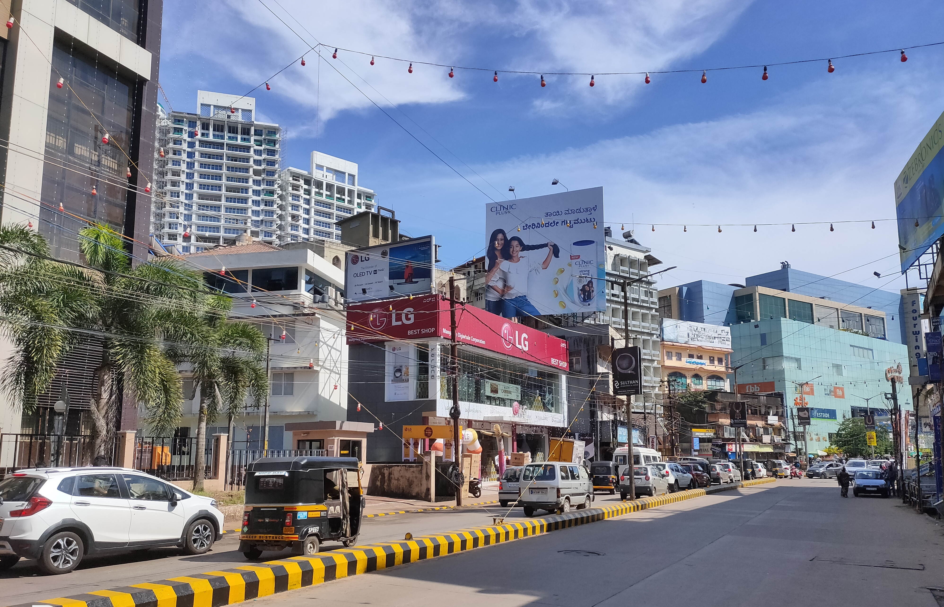 A view of KS Rao Road, Mangalore